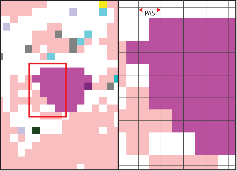 Image QEMSCAN d'un grès (quarz en rose, feldspath en bleu et zircon en violet) avec zoom et pas d'acquisition (20µm)